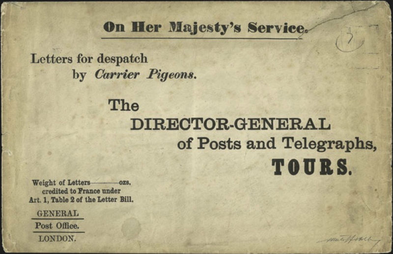 Image of a letter sent by carrier pigeon.